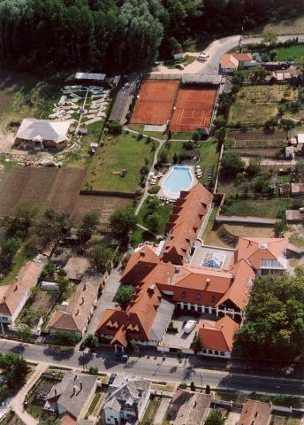 Döbrönte, Hungary, aerialphotography